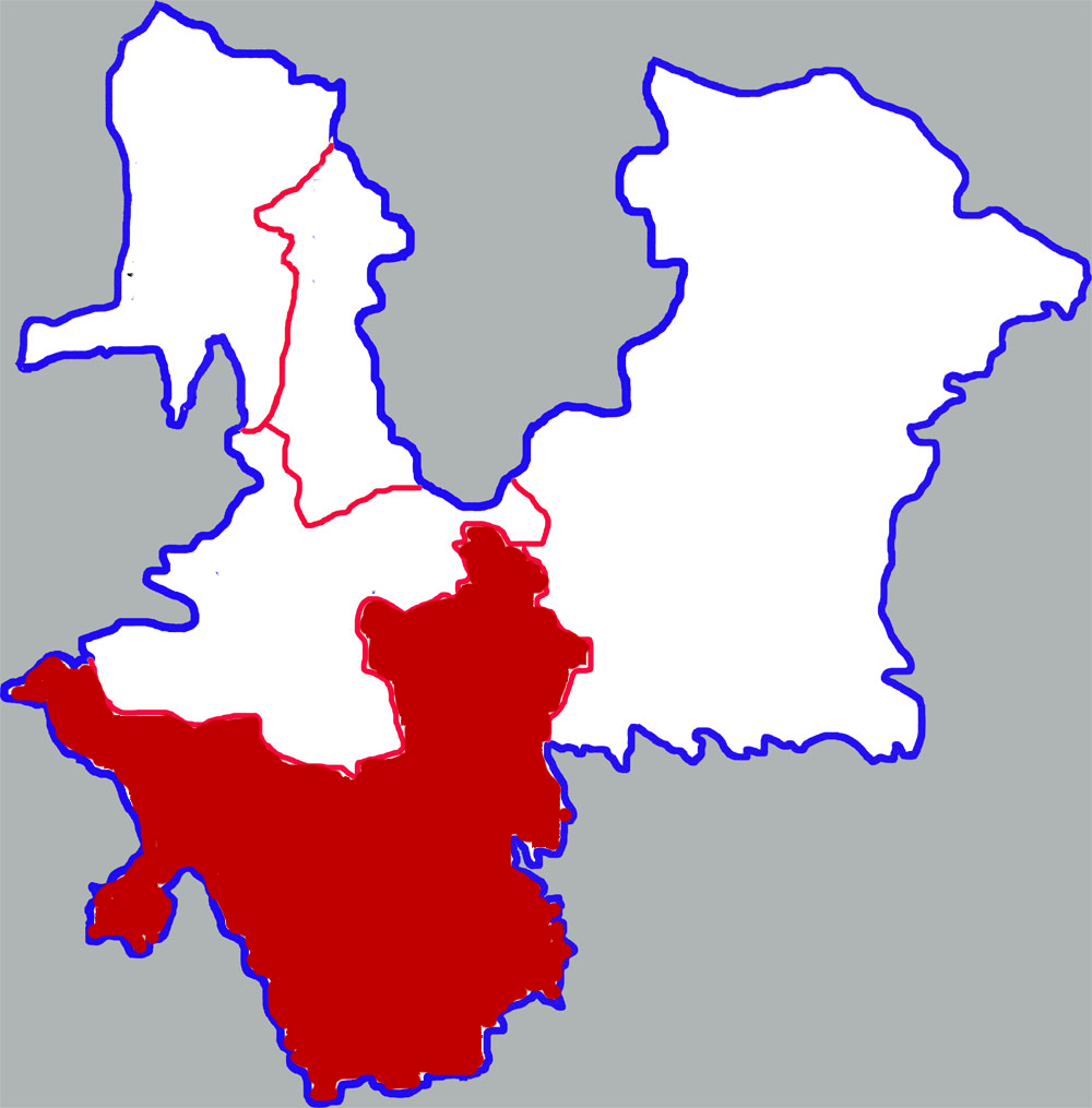 Location of Tongxin county in Wuzhong city, China